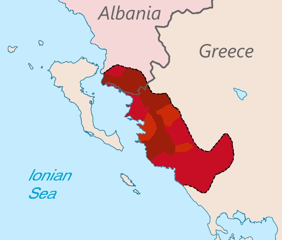 Albanian Cham dialect 19th century-early 20th century